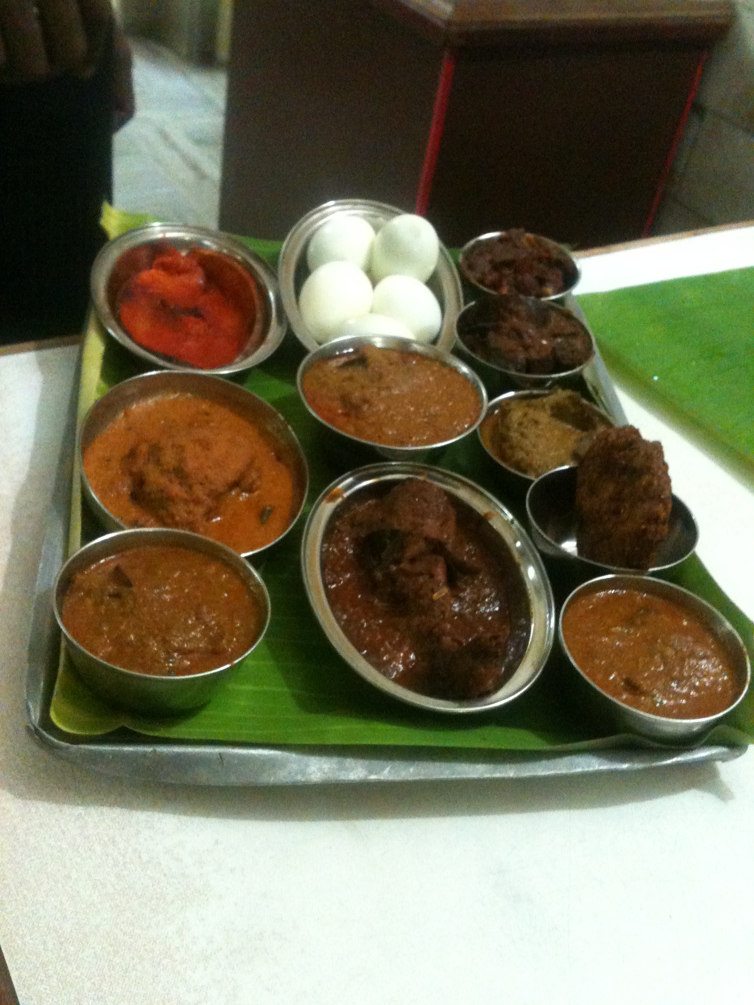 Non-Vegetarian dish/menu sample tray at Anandas Chettinad Hotel in Coimbatore, India